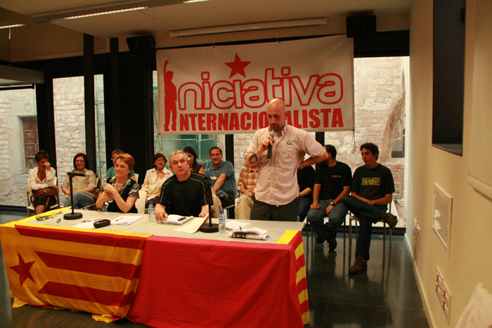 Public presentation of Iniciativa Internacionalista in Barcelona